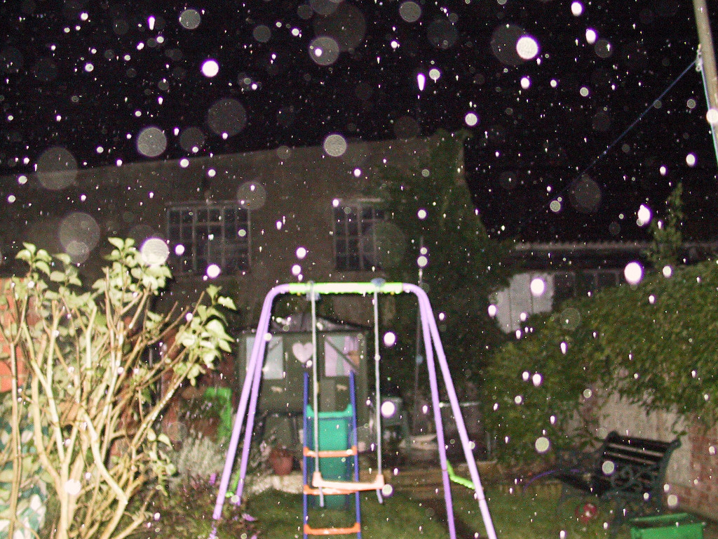 Rain orbs with camera zoomed out.